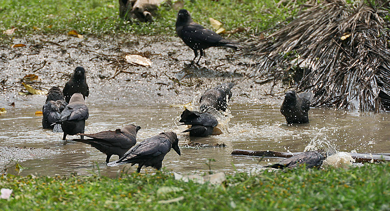 House Crow Corvus splendens in Kolkata, West Bengal, India.